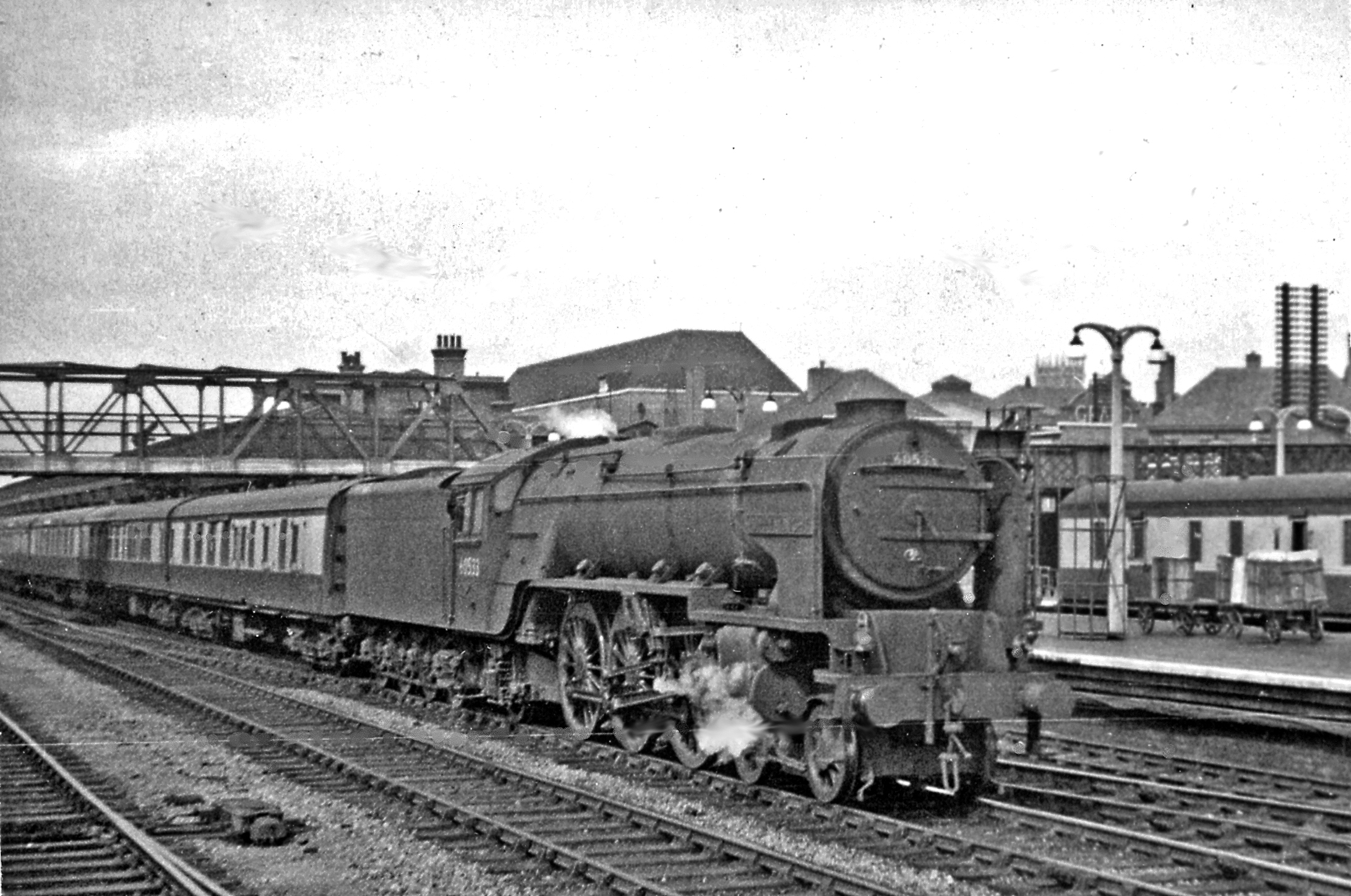 Glasgow - King's Cross express passing Doncaster. View northwards, towards York etc. on the ECML - not to mention Leeds, Bradford, Hull etc. on the GN main lines and Grimsby and Cleethorpes on the GC. This was before the extra Up platform was built and here all Up trains that stopped were dealt with at one platform. The 08.35 from Glasgow Queen Street via Edinburgh did not stop, however, and is passing through on the Up Through, headed by Peppercorn A2 4-6-2 No. 60533 'Happy Knight' (built 4/48, withdrawn 6/63). The footbridge led from by the main station entrance to the Locomotive Works.